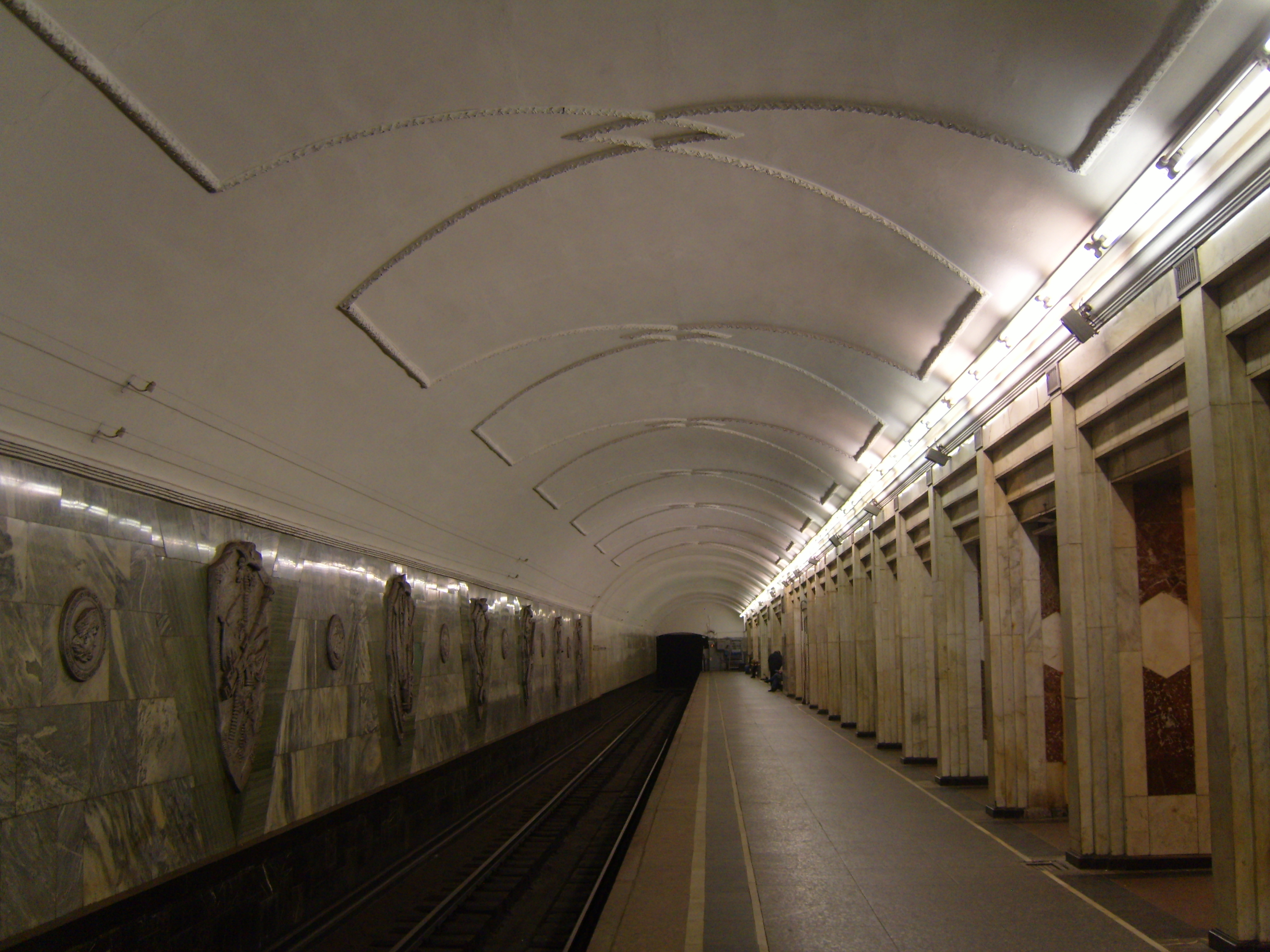 Way platform on the Moscow Metro station "Semyonovskaya"